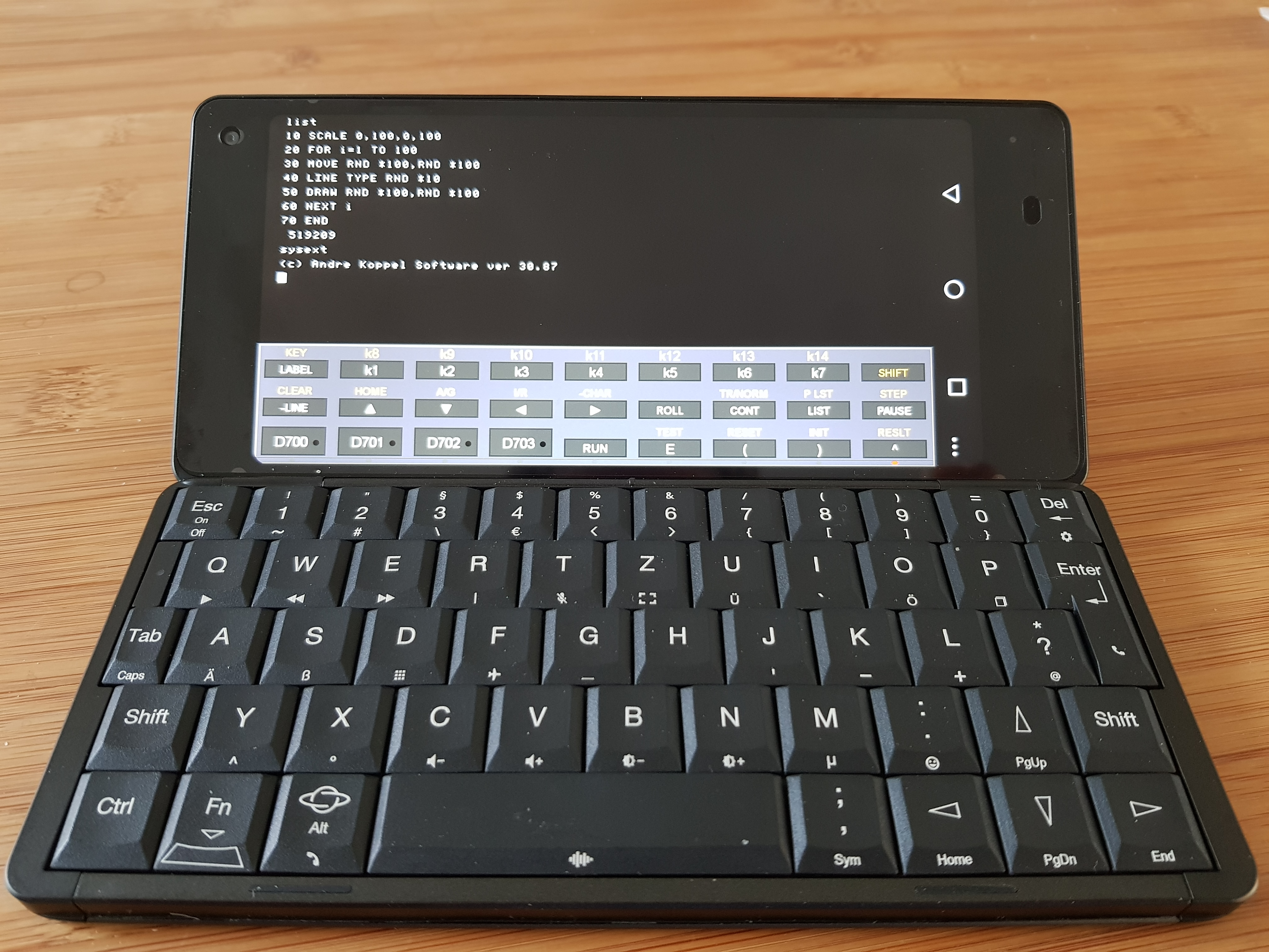 Planet Gemini Android Pocket PDA running HP86B Emulation